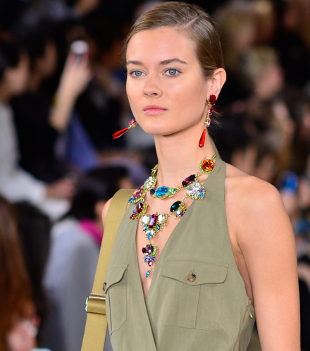 Monika "Jac" Jagaciak walking the Ralph Lauren Spring/Summer fashion show.